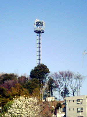 docomokitikyoku